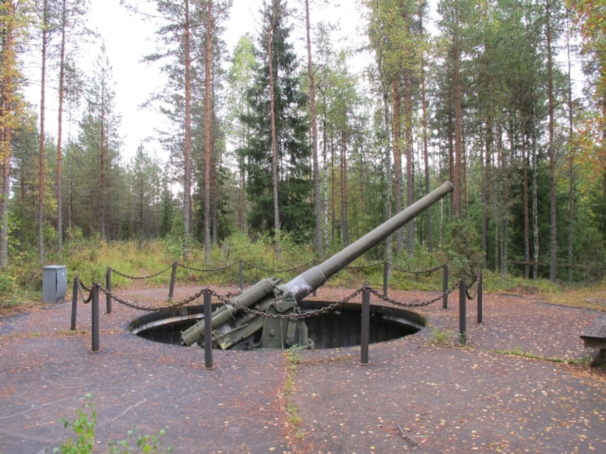 Canet 152/45 C model cannon in Sarsuinmäki, Sulkava, Finland